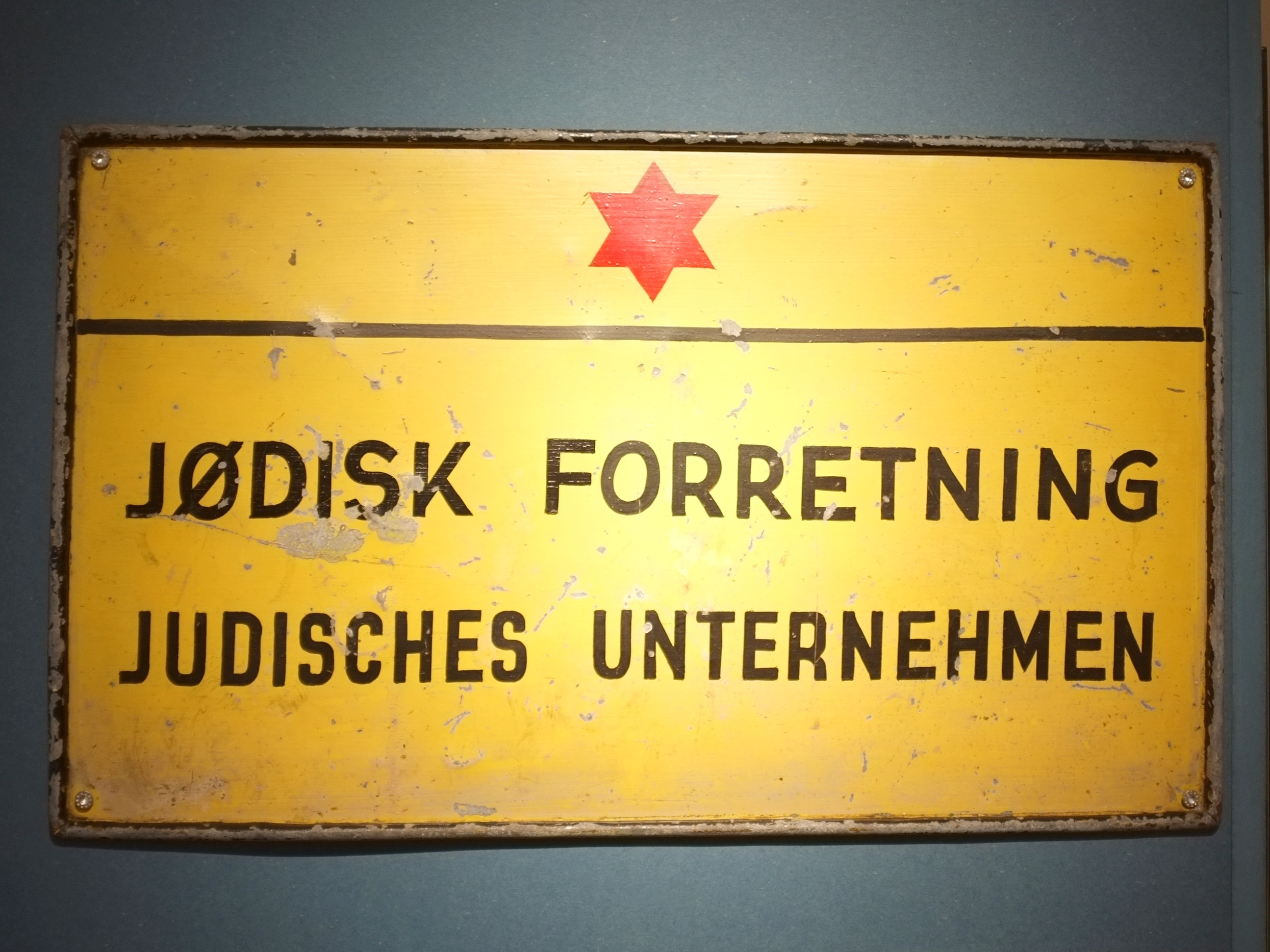 "Jewish Shop." From the German occupation of Norway during World War 2, now in the collection of Oslo Jewish Museum.